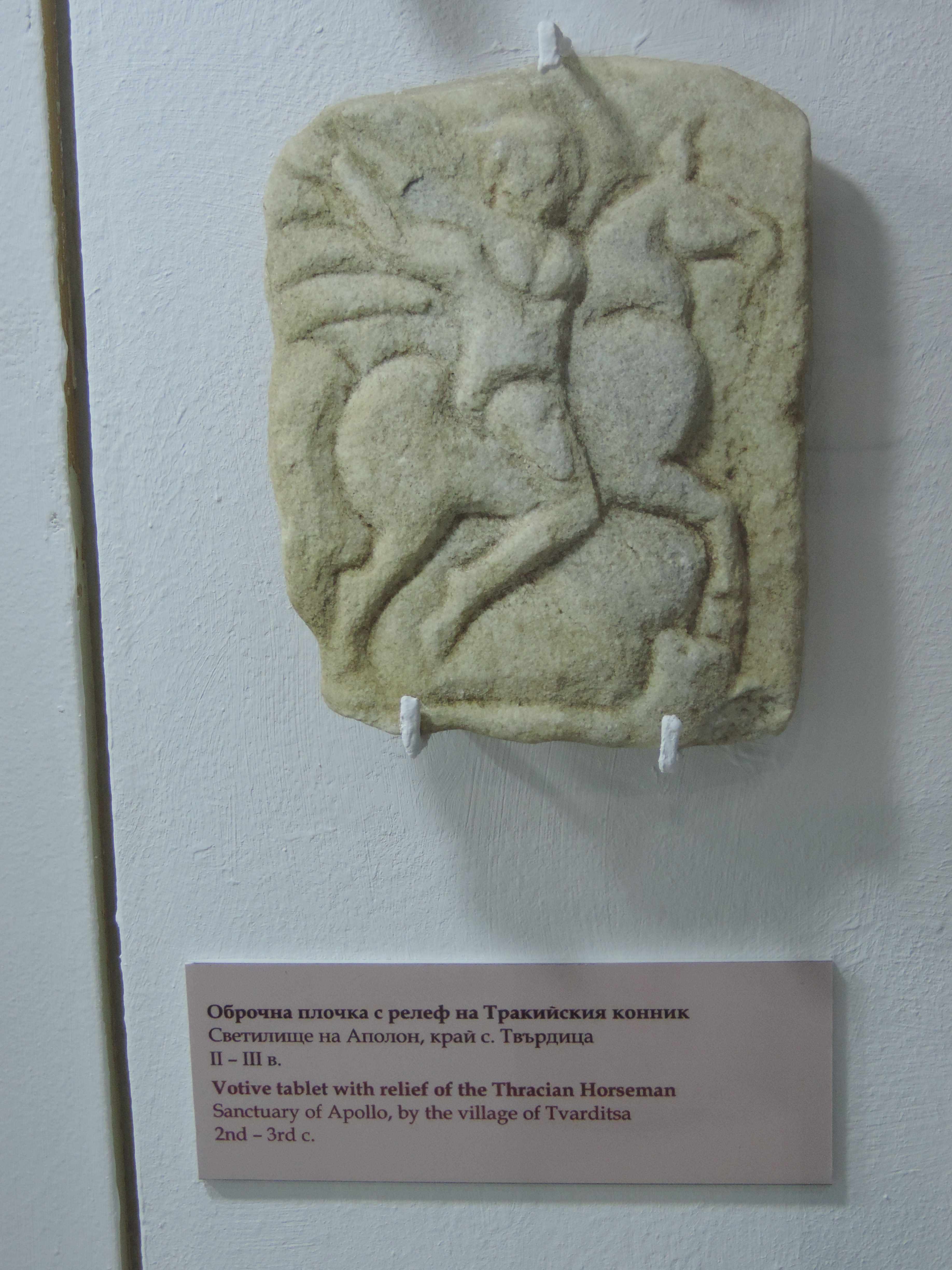 Tablet with the Thracian Horseman, found near Tvarditsa. Exhibit of Burgas Archaeological Museum